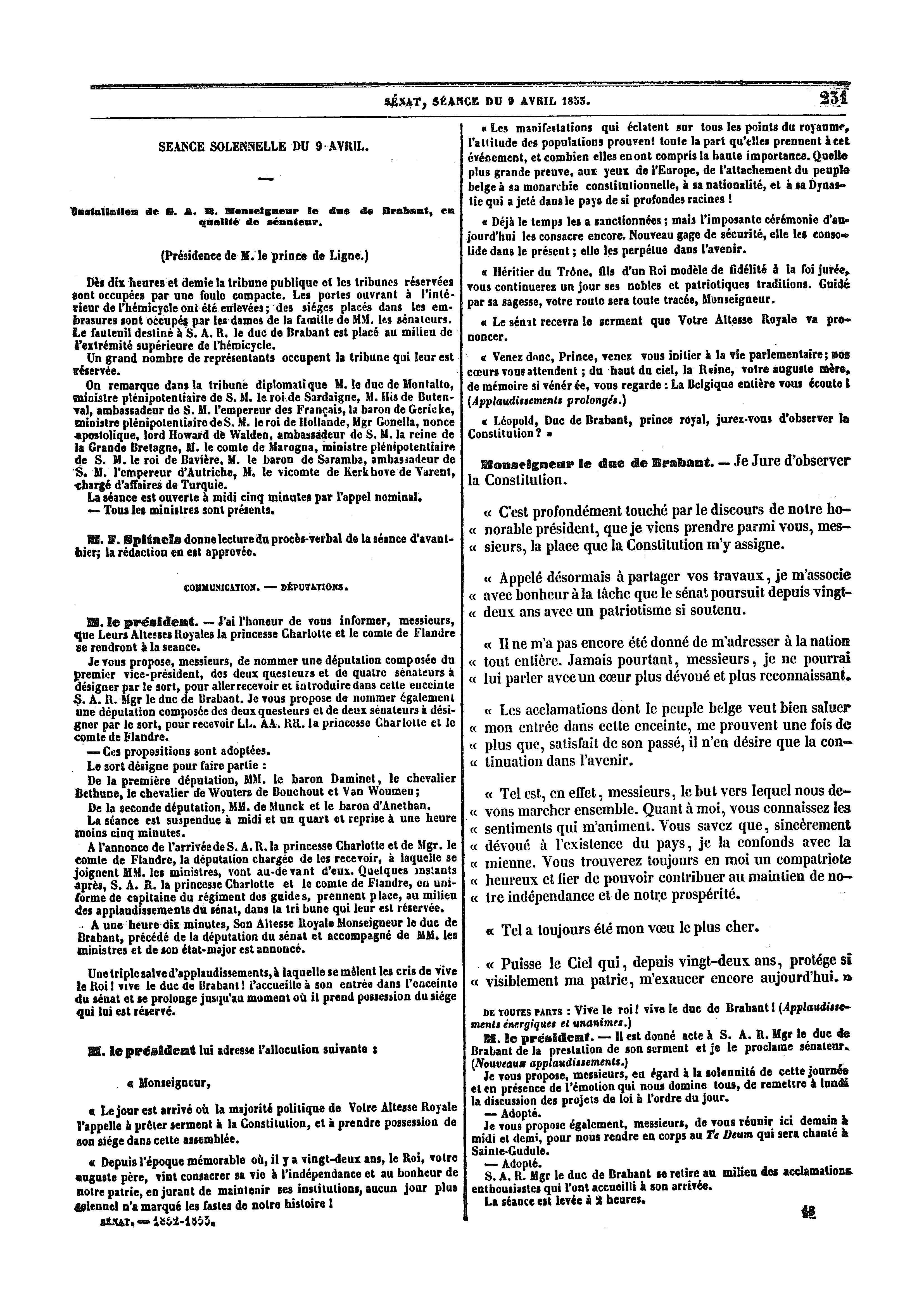 Fragment of the Handelingen van de Senaat/Annales du Sénat (Reports of the Senate), showing the swearing-in of prince Leopold, Duke of Brabant. Brussels, Senate, saturday 9 April 1853.